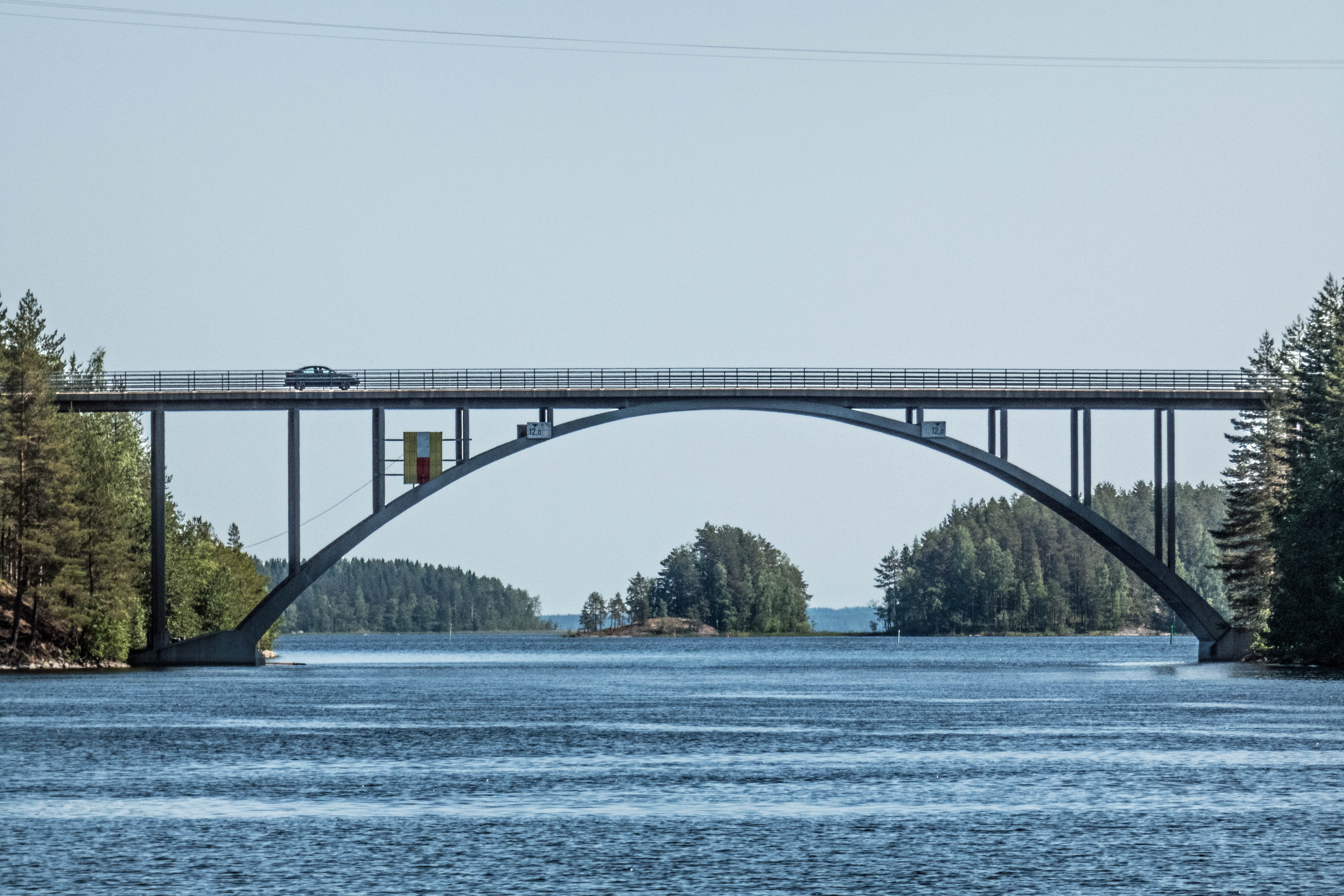 Bridge over Orivirta in Savonlinna